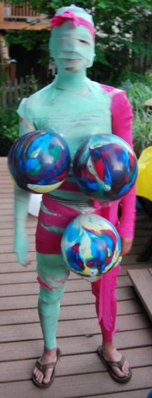 Portrait of the Artist